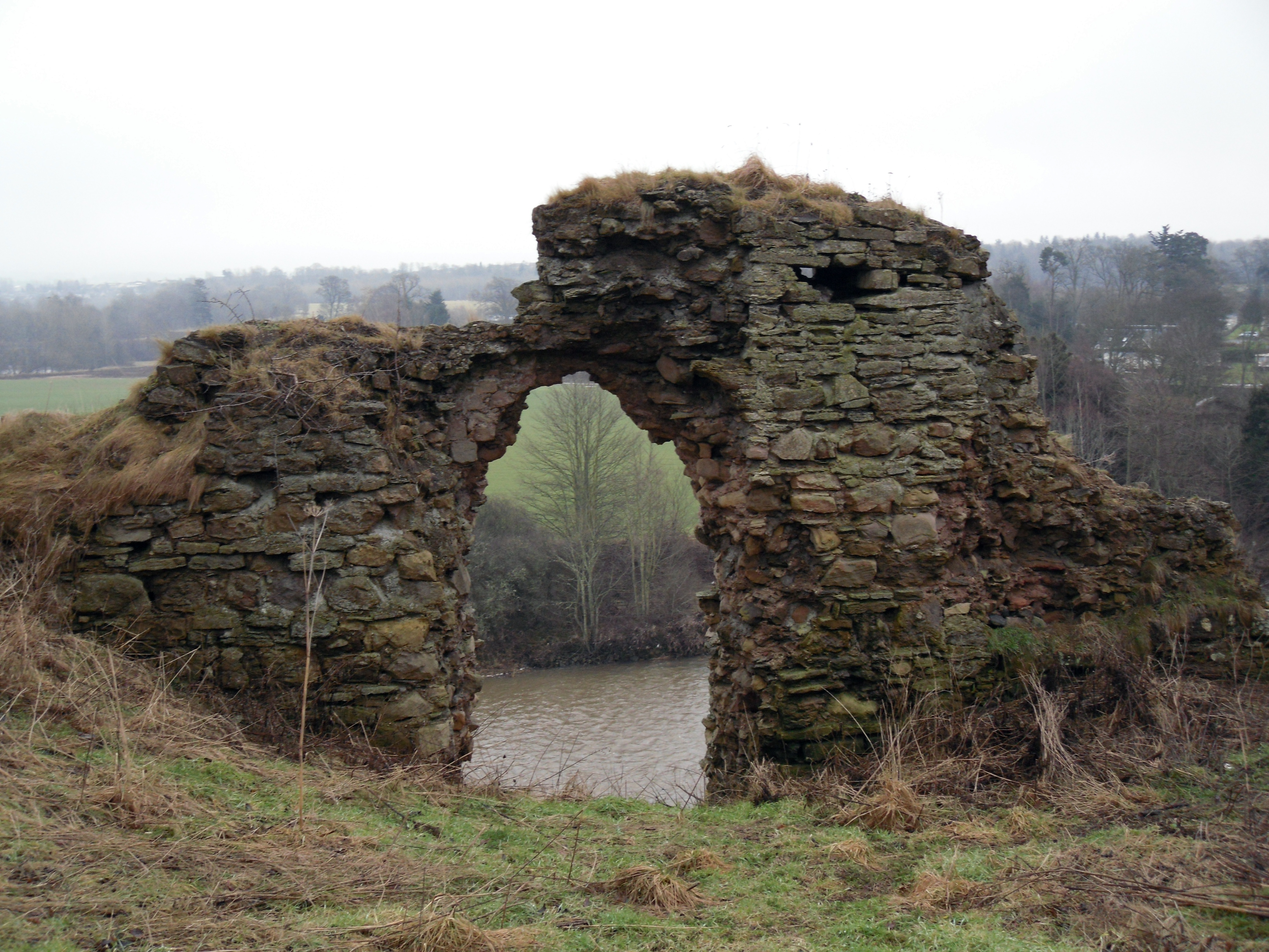 The River Teviot from Roxburgh Castle